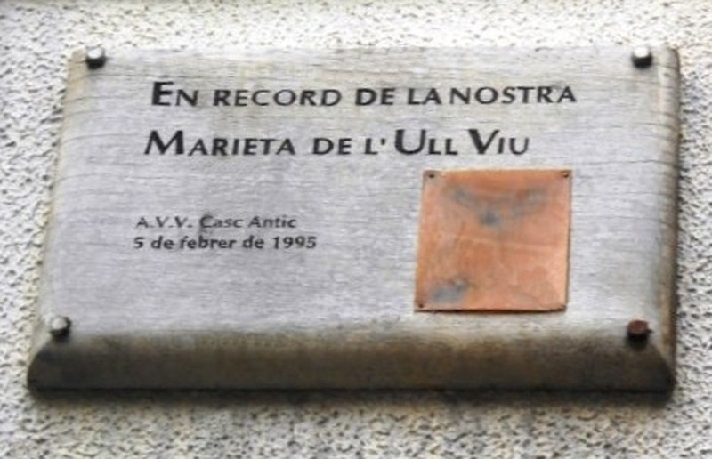 In memoriam of Marieta de l'Ull Viu at the FONT DEL GAT DE SANT AGUSTÍ VELL at Plaça de de Sant Agustí Vell, Barri de Ribera , Barcelona